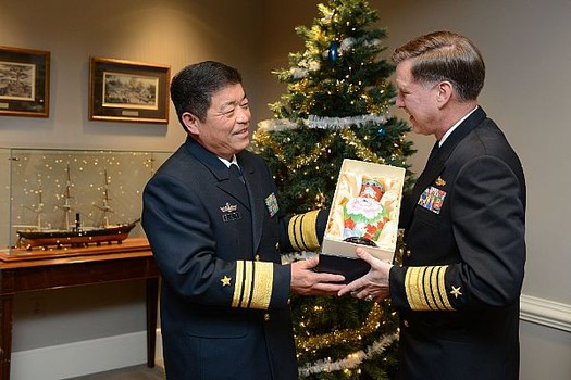 WASHINGTON (Dec. 6, 2012) Vice Admiral Zhang Yongyi, Vice Commander-in Chief of the People's Liberation Army Navy, presents Vice Chief of Naval Operations (VCNO) Adm. Mark Ferguson with a gift during his visit to Washington. Ferguson and Zhang discussed U.S.-China military to military relations, counter piracy efforts in the Gulf of Aden, the upcoming Rim of the Pacific exercise (RIMPAC 2014), and future opportunities to work and train together. (U.S. Navy photo by Mass Communication Specialist 1st Class Arif Patani/Released)